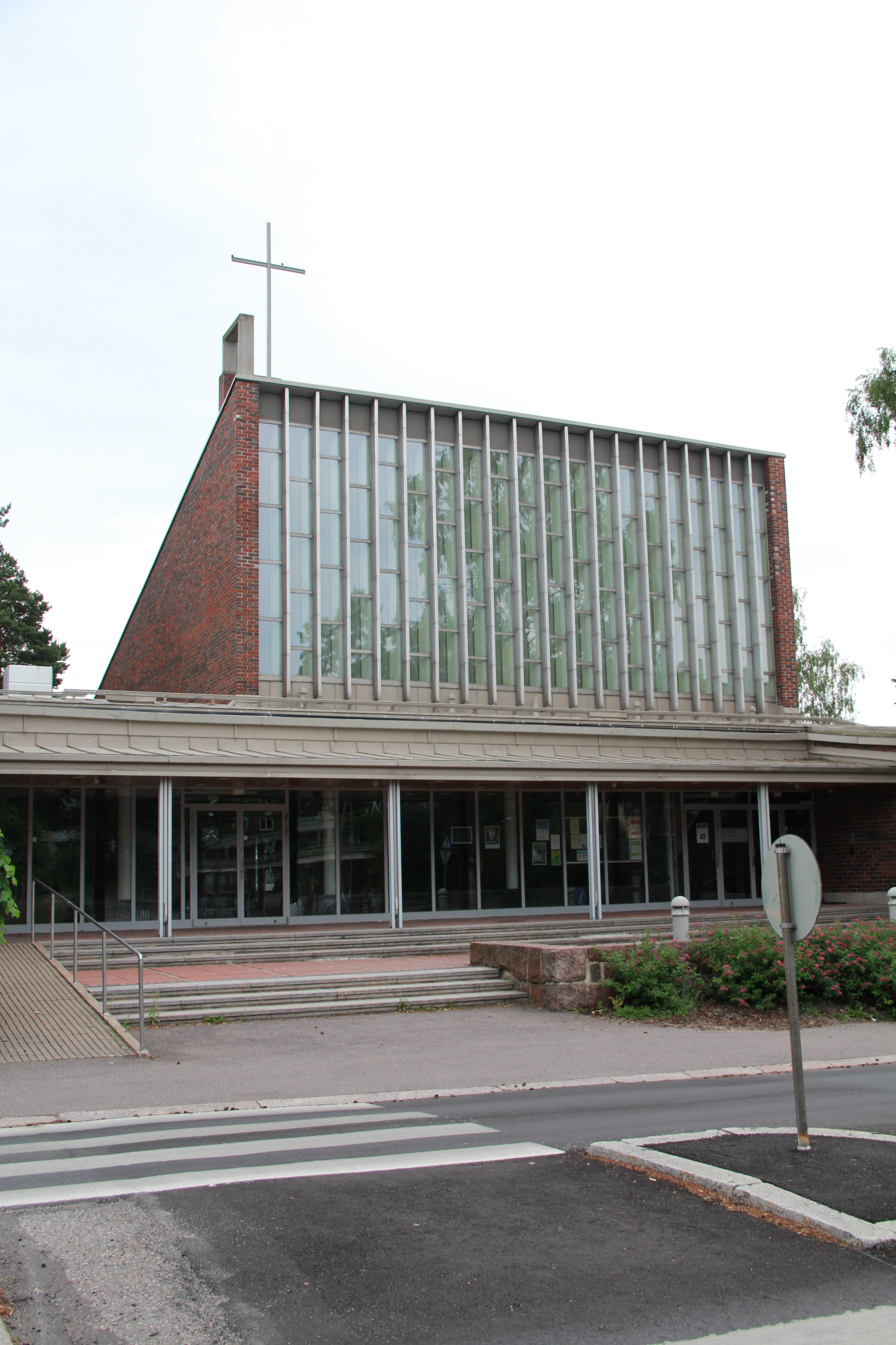 Herttoniemi church, Herttoniemi, Helsinki, Finland. The church was completed in 1958 and designed by architect Osmo Lappo. Church hall.